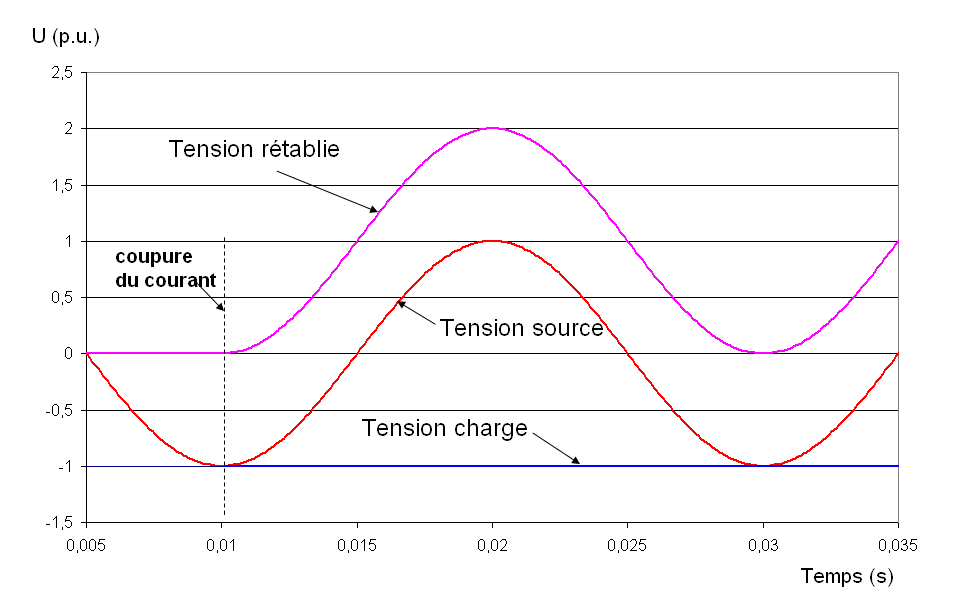 TRV during capacitive current interruption